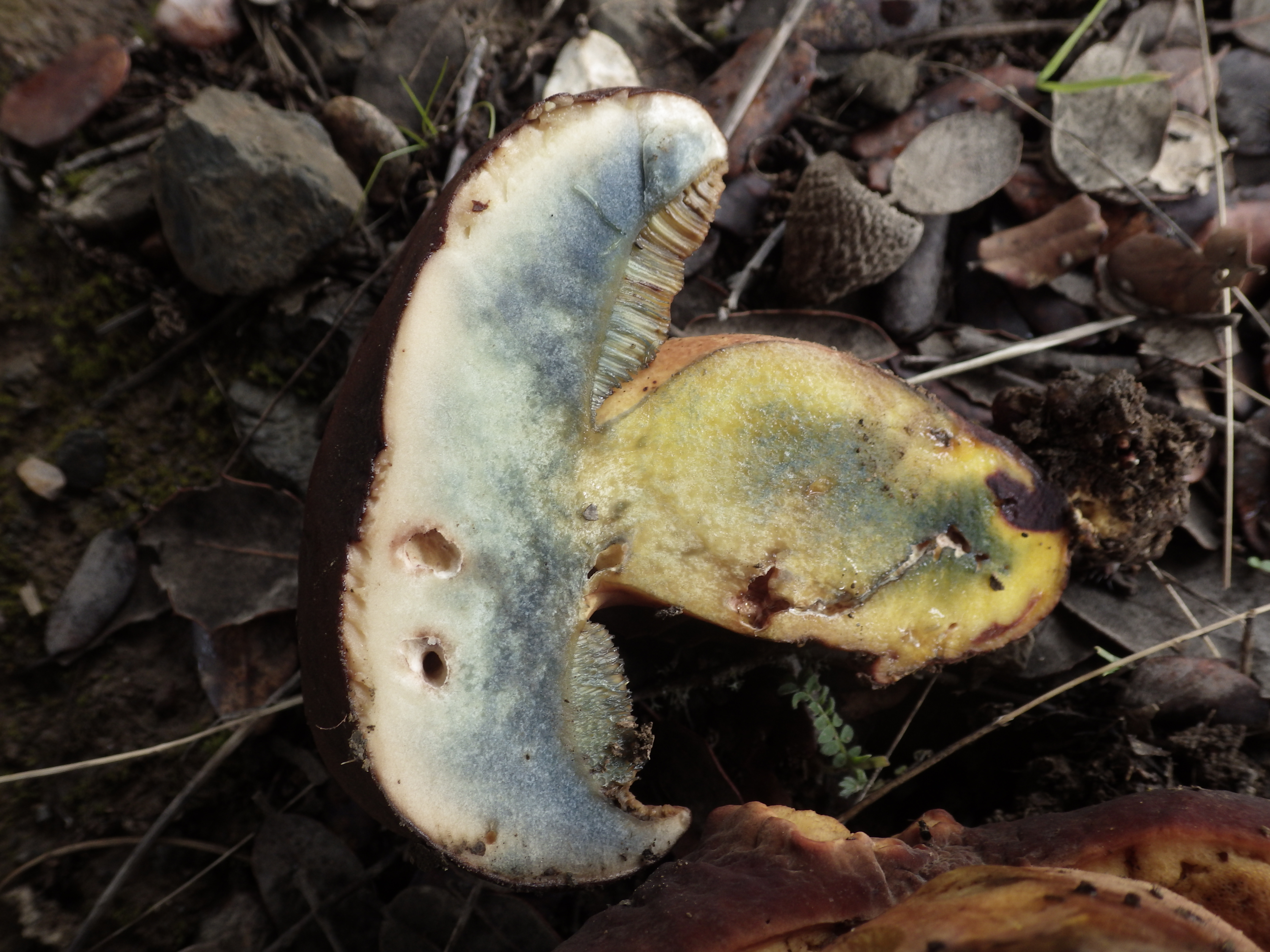 Lanmaoa fragrans Image location: Serra de São Mamede, Portugal Growing under Quercus trees. Very heavy for its dimensions. Recognized by sight For more information about this, see the observation page at Mushroom Observer.